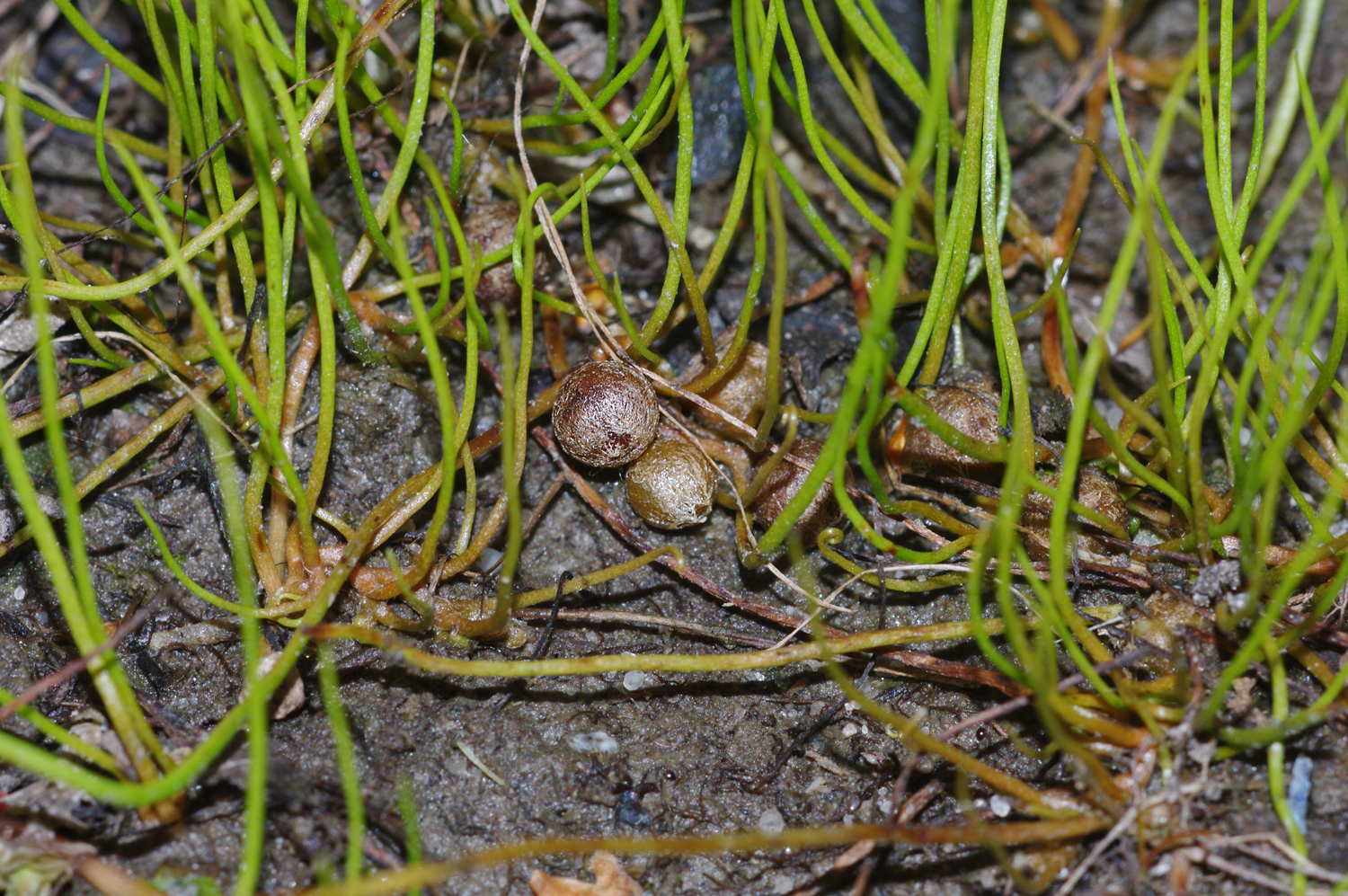 Mature sporocarps at the base of the leaves from the fern species Pillwort, Pilularia globulifera.